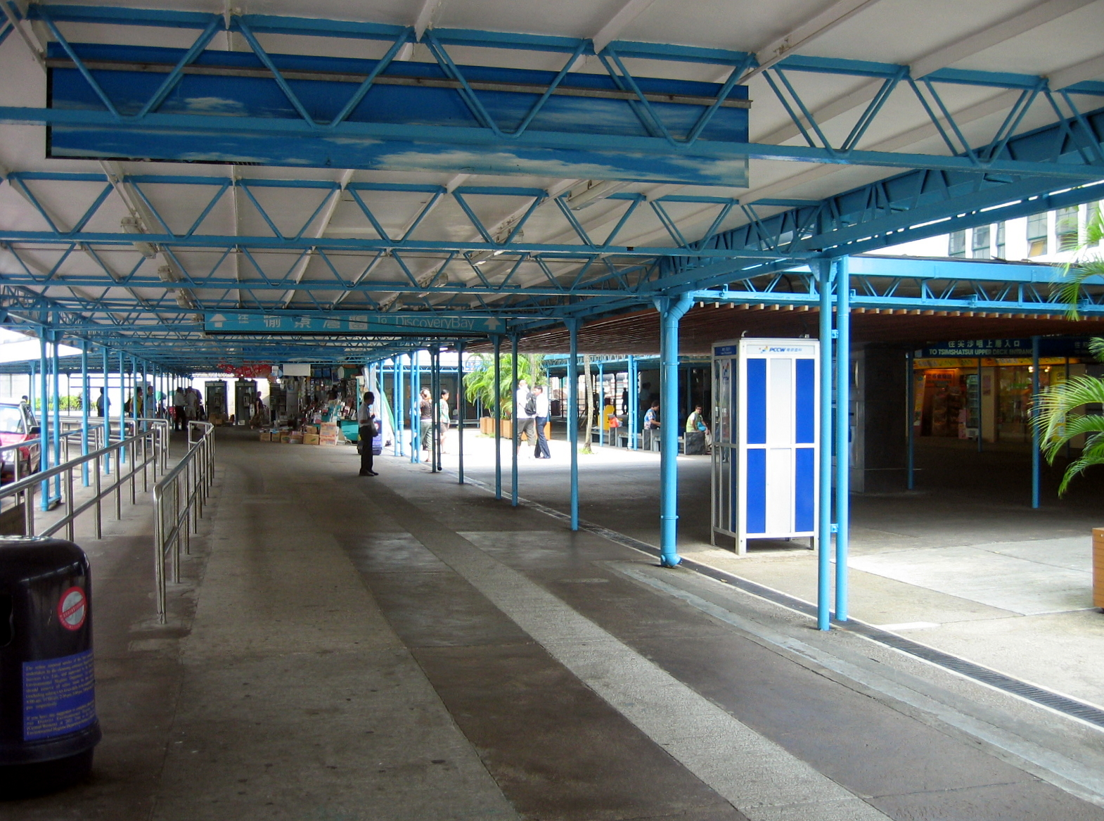 Edinburgh Place Ferry Pier Entry Plaza Access 愛丁堡廣場碼頭入口通道